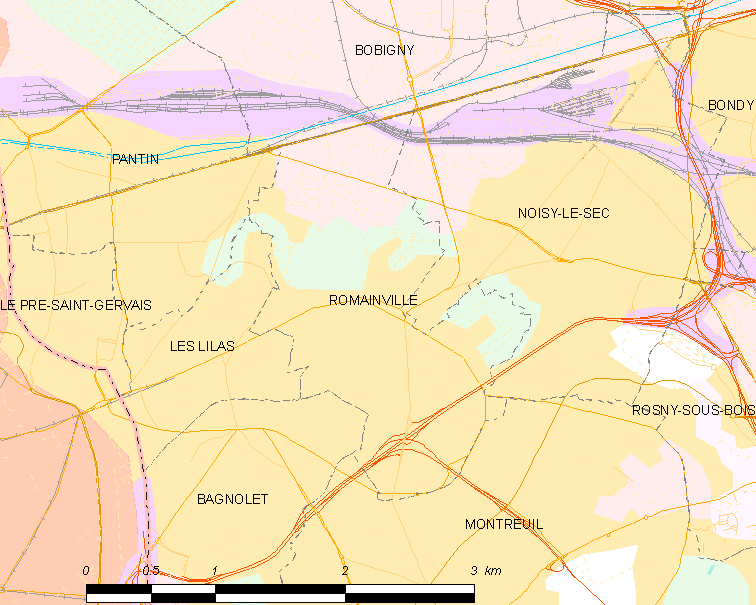 Map of French municipality Romainville